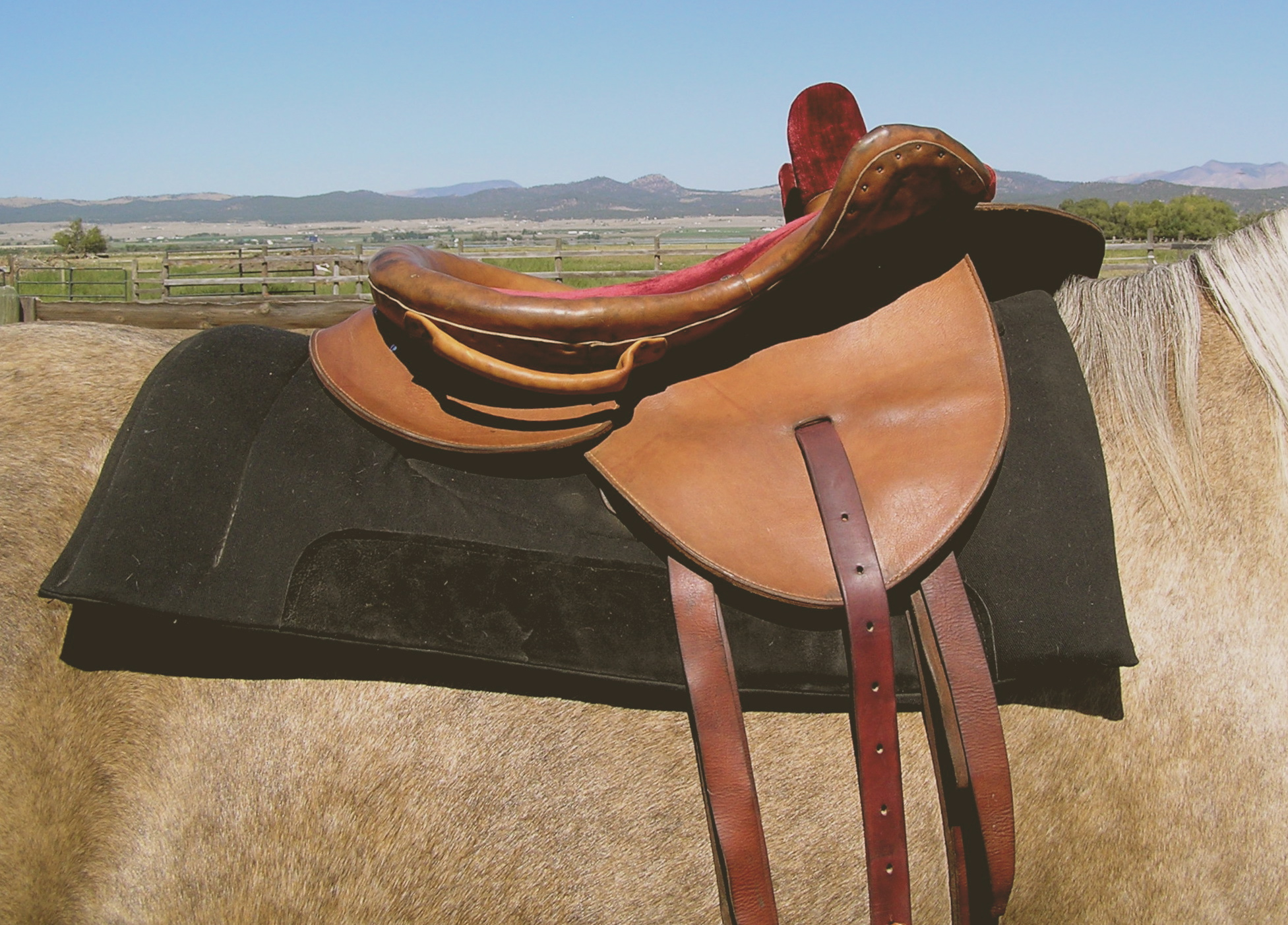 Western-styled Antique "catalogue" saddle, probably manufactured late 1800s, refurbished. Off side showing stabilizing girth